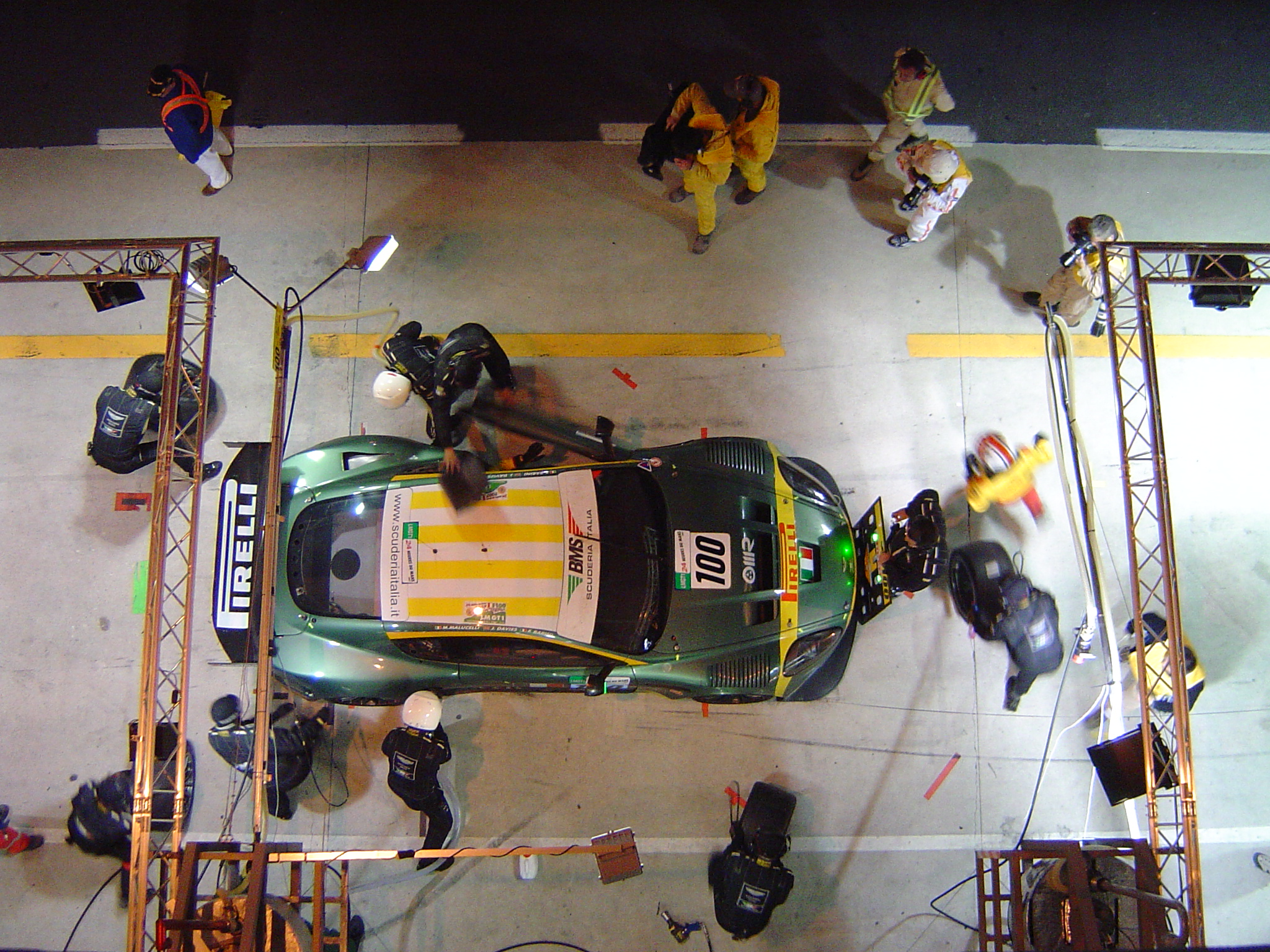 Pitstop of one of the Aston Martin's during Le mans race 2007